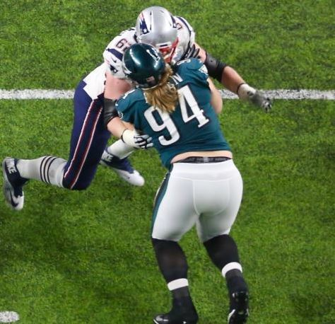 Super BowlNew England Patriots quarterback Tom Brady drops back to pass in the second half of Super Bowl LII (Brian Allen/VOA)